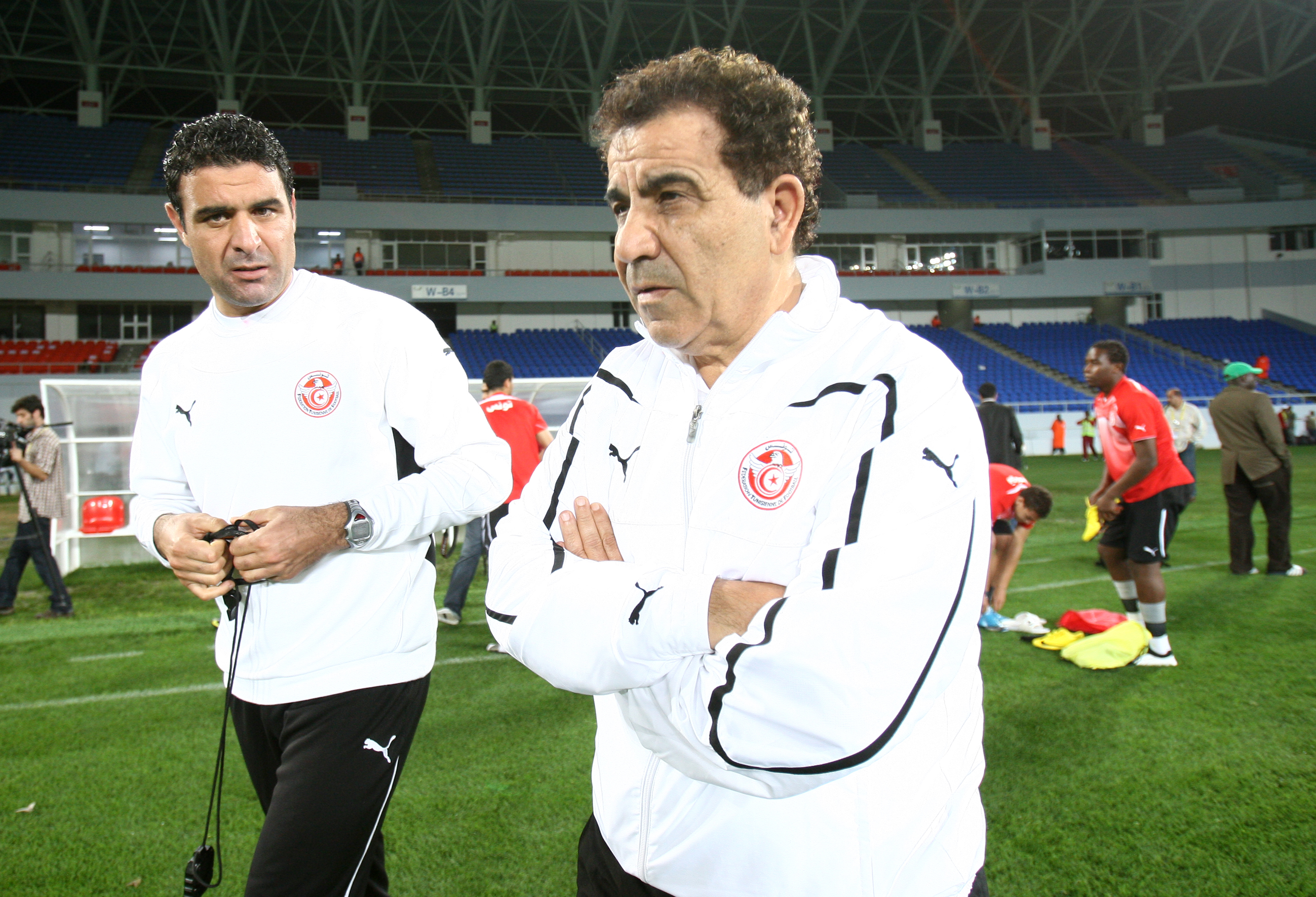 mohamed ameur hizem - faouzi benzarti